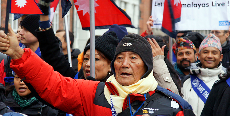 Min Bahadur Sherchan, Nepali ex-soldier, who reached the summit of Mount Everest on May, 25 2008 at the age of 76 years 340 days. Here shown at Summitteers Summit at COP-15 in Copenhagen Dec. 11, 2009. He was the oldest summitteer of Everest until 2013. Since then a Japanese mountaineer holds the title. H